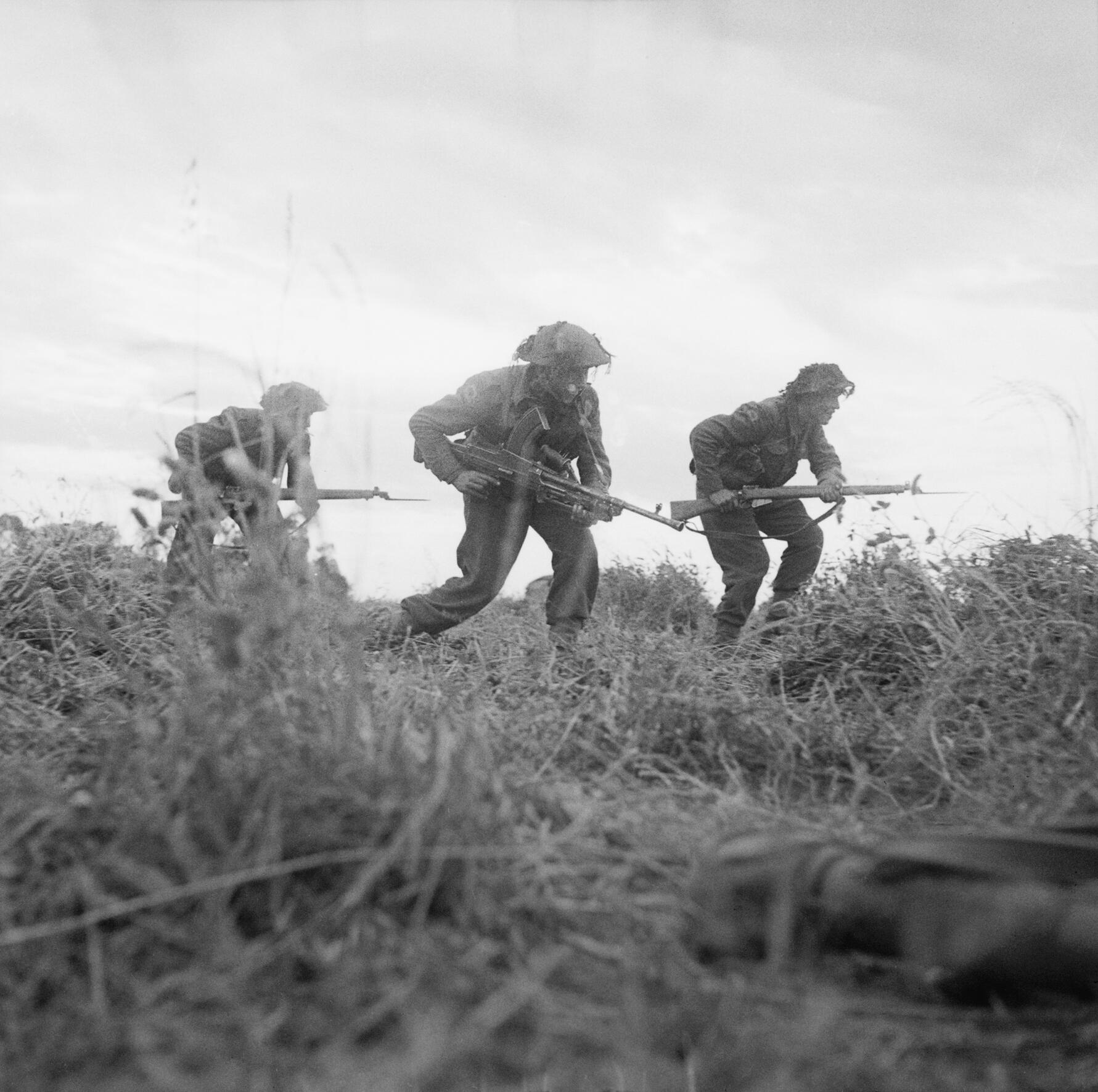 Infantry of 8 Rifle Brigade (Motor), 11th Armoured Divsion, move forward cautiously near Eterville, Normandy, 29 June 1944. Infantry of 8 Rifle Brigade (Motor), 11th Armoured Divsion, move forward cautiously near Eterville, Normandy, 29 June 1944.